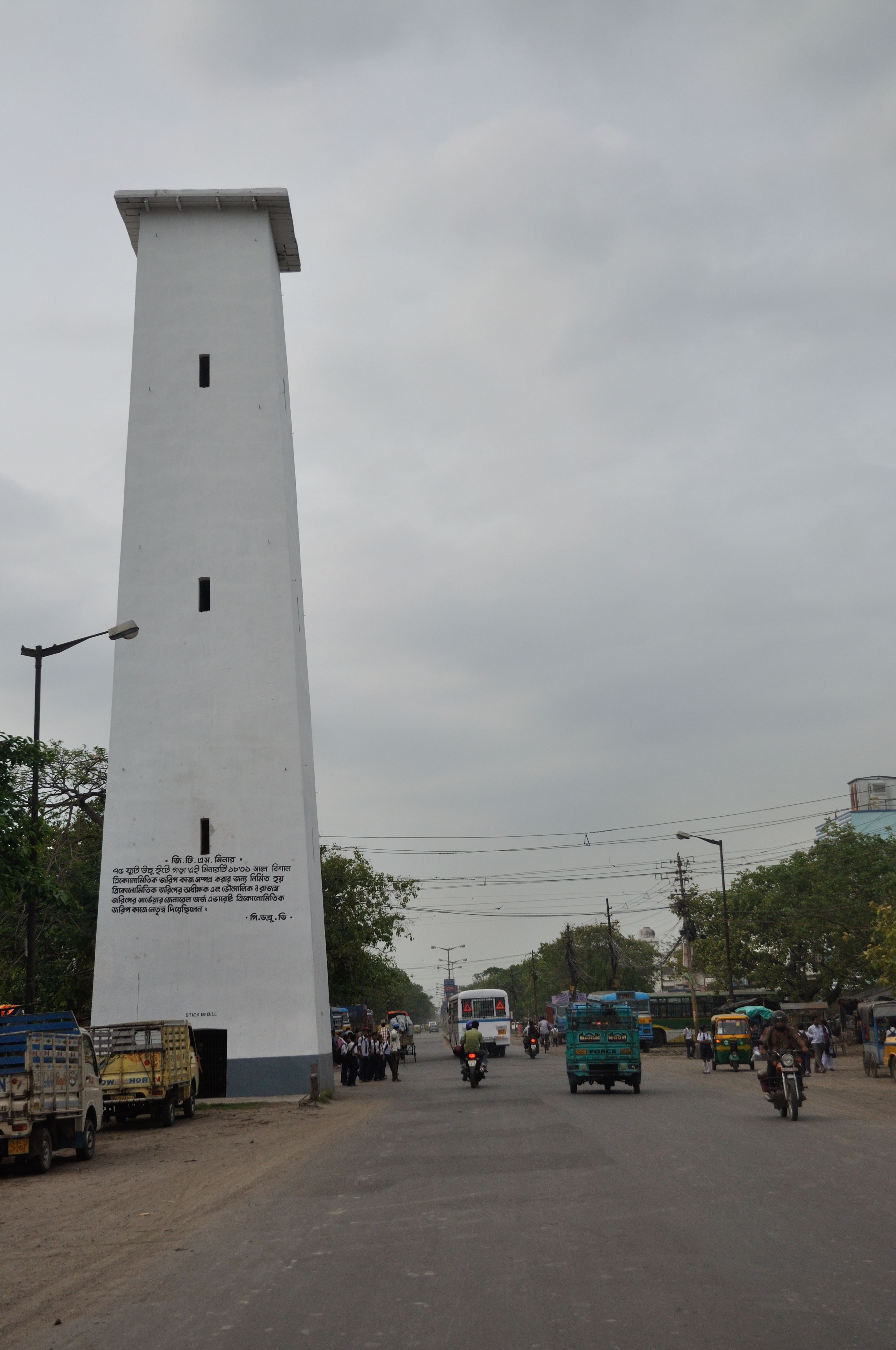 Photographed on the Barrackpore Trunk Road or B T Road. Translation from Bengali description: G T S Minar This 75 feet height large brick built minar has been erected on 1831 CE. Surveyor and geographer George Everest leaded the trigonometric survey. P W D (Public Works Department)